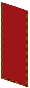 Union of Soviet Socialist Republics (USSR); Workers' and Peasants' Red Army (WPRA); rank insignia … of the ground forces since 1940; here small collar patch, worn until ca. 1943: Enlisted men level: Army generally and Infantry Krasnoarmeets / Red Army Soldier, changed to Ryadovoy / Private, from 1946 (comparable to Private, NATO OR1) Corps colour: basic colour – raspberry-red, piping – deep-red.